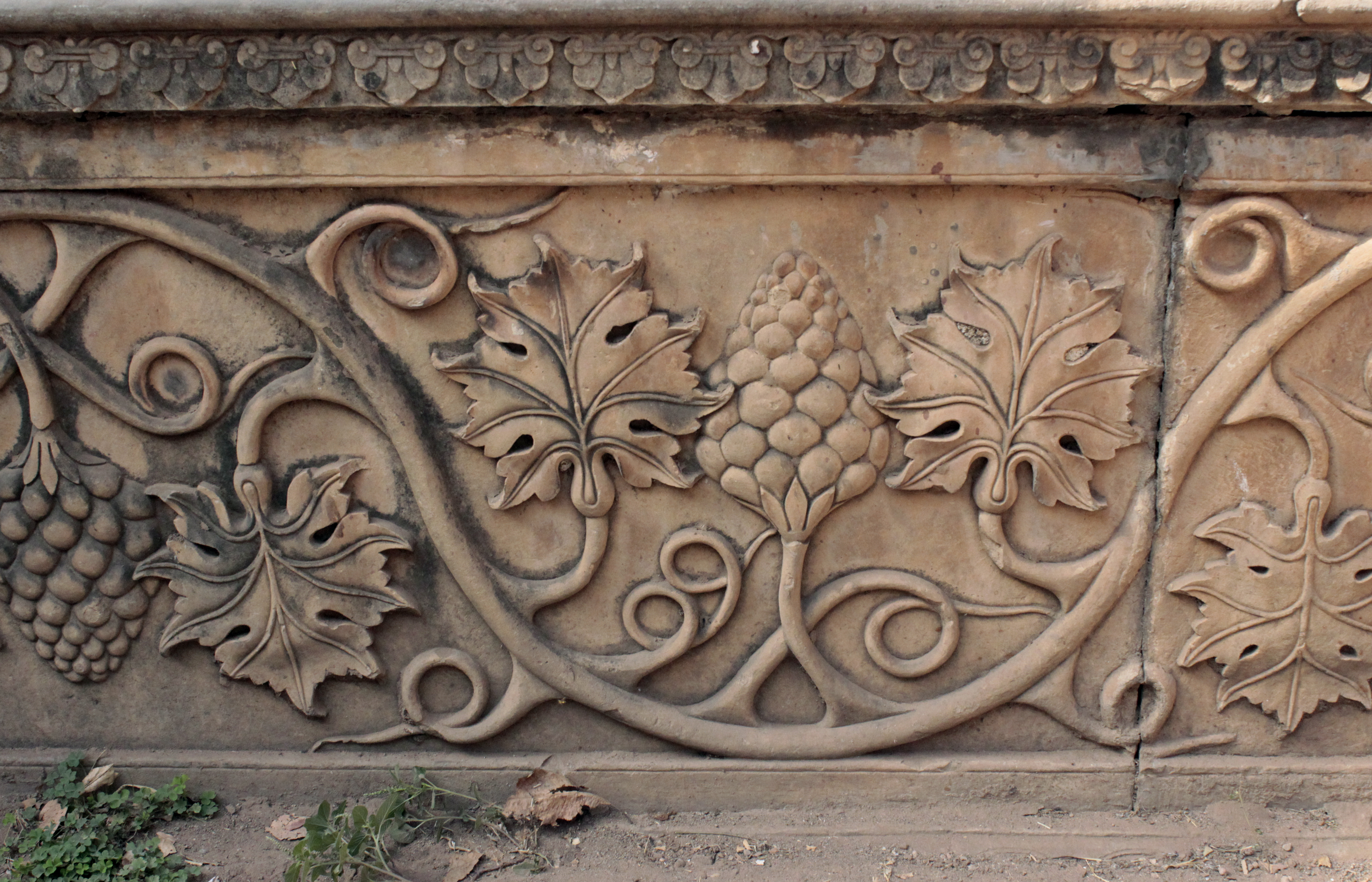 Stone Work at Sadar Manjil Bhopal